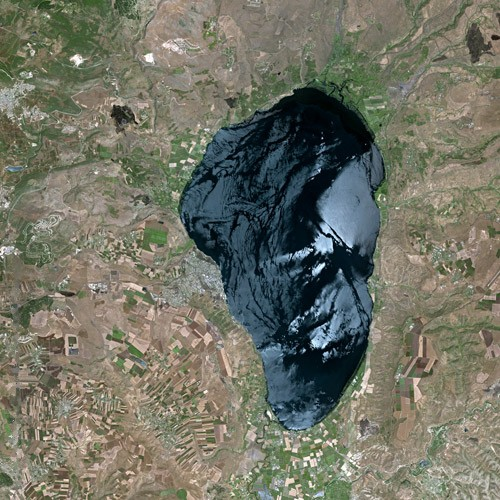 Sea of Galilee by SPOT Satellite